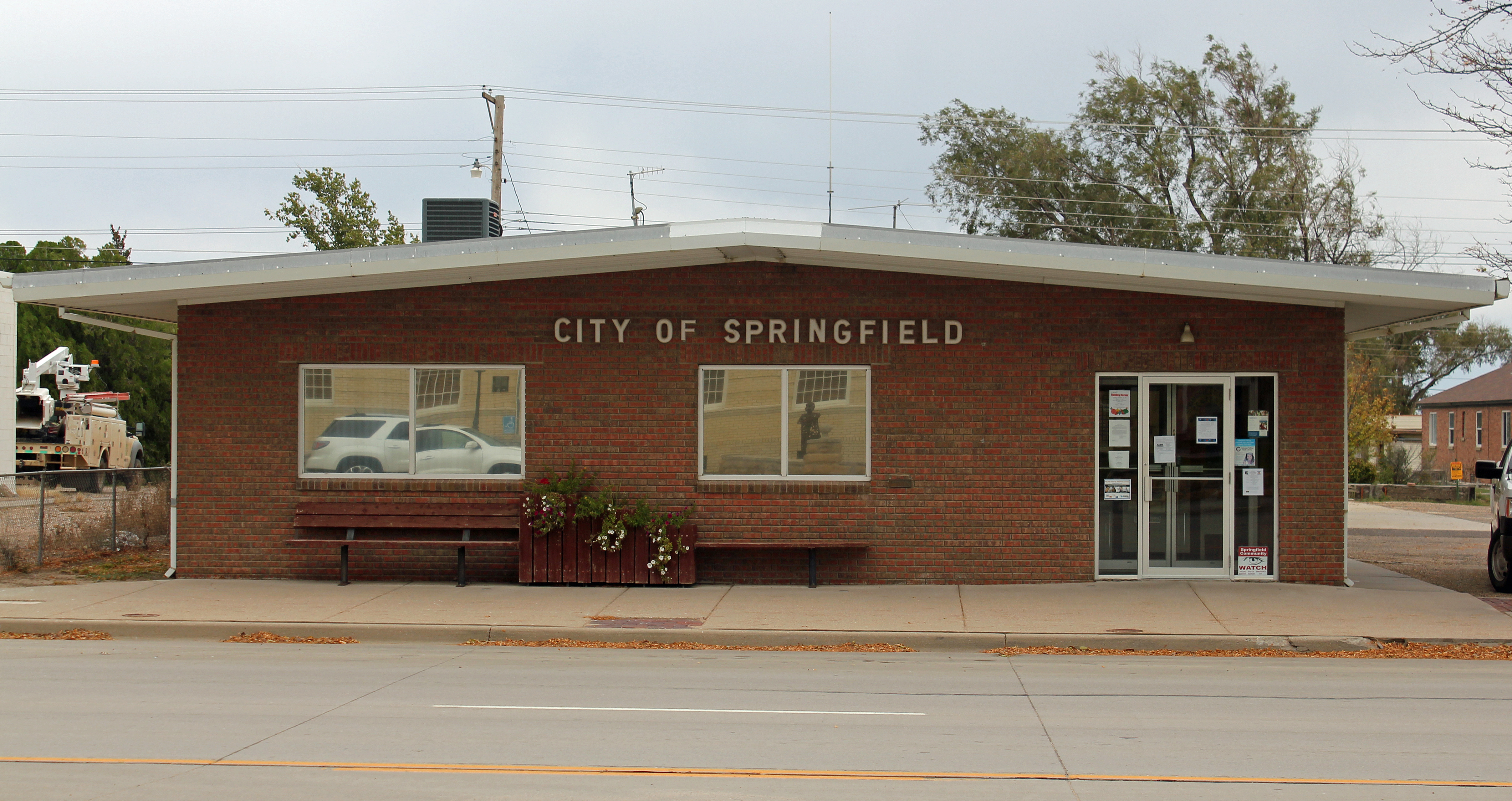 The town hall (city hall) of Springfield, Colorado, located at 748 Main Street.